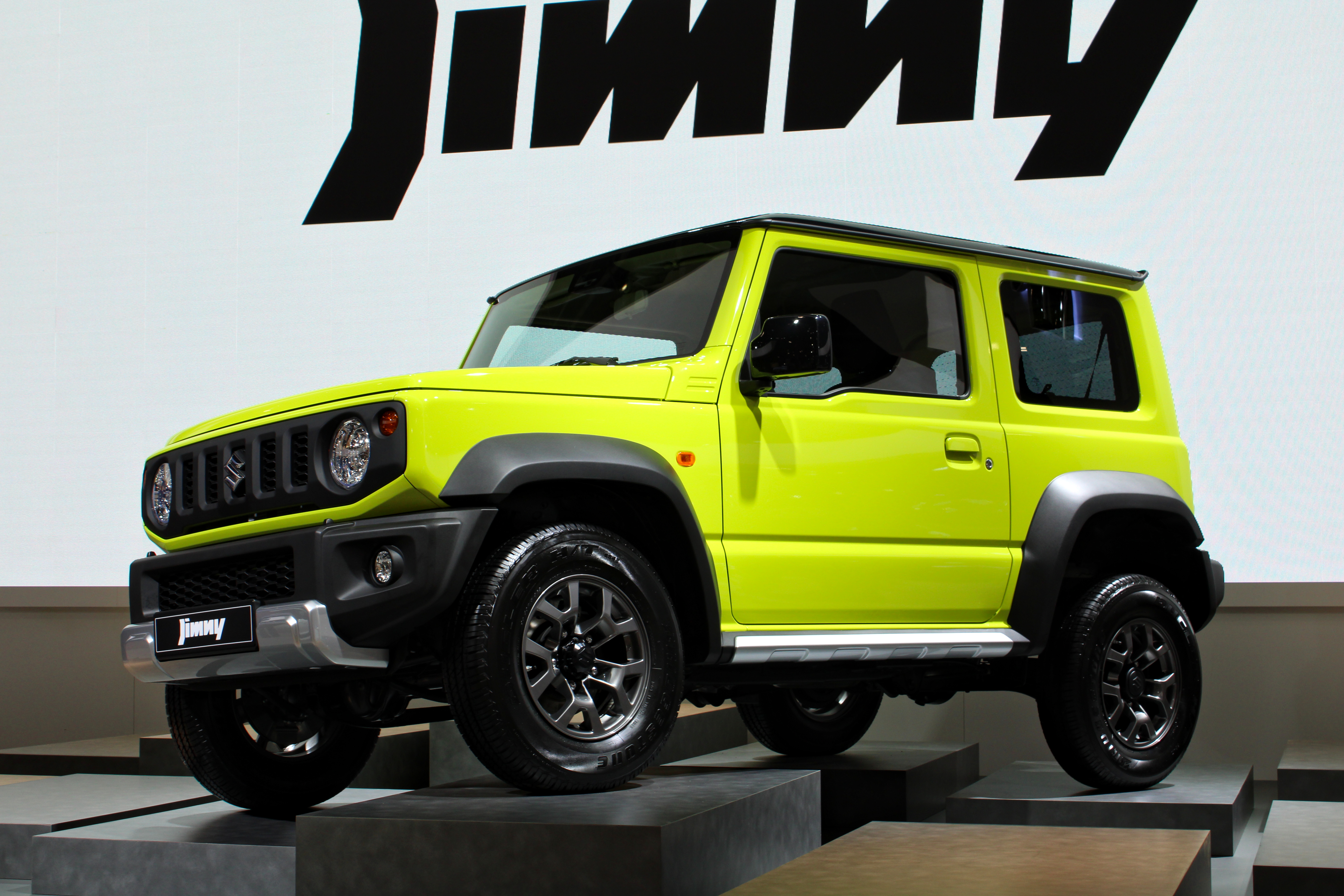 Suzuki Jimny at Paris Motor Show 2018